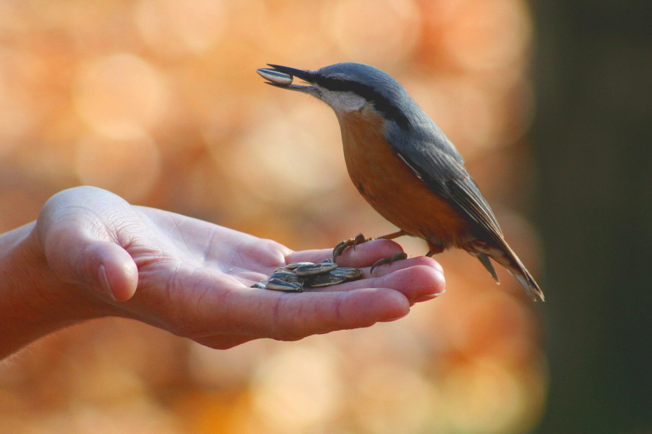 Wildlife photography, Wood Nuthatch (Sitta europaea).